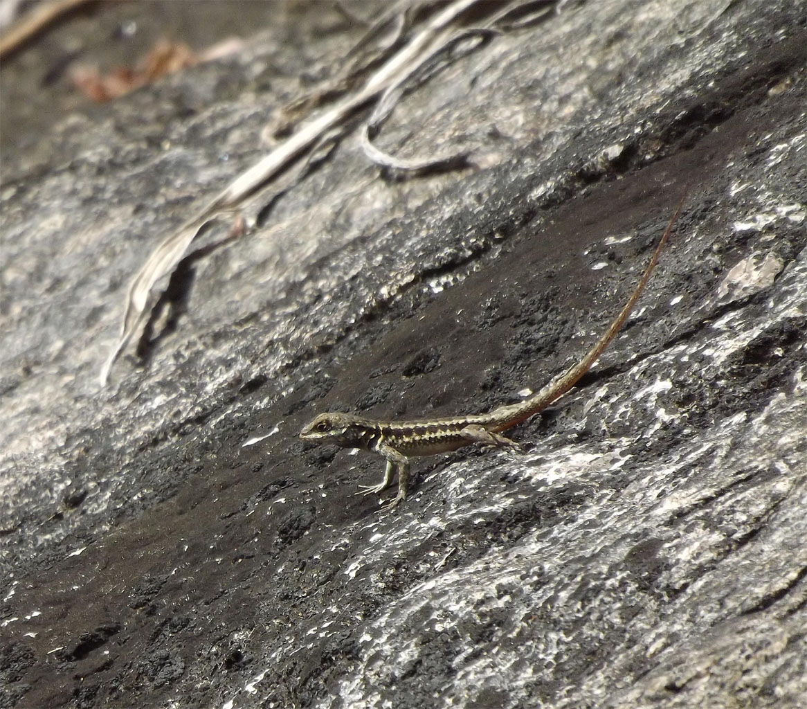 "Calango" lizard (Tropidurus sp.), Brazil